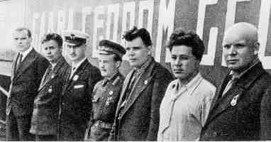 First Heroes of the Soviet Union (from left to right): Sigizmund Levanevsky, Vasily Molokov, Mavriky Slepnyov, Nikolay Kamanin, Mikhail Vodopyanov, Anatoly Lyapidevskiy, Ivan Doronin.